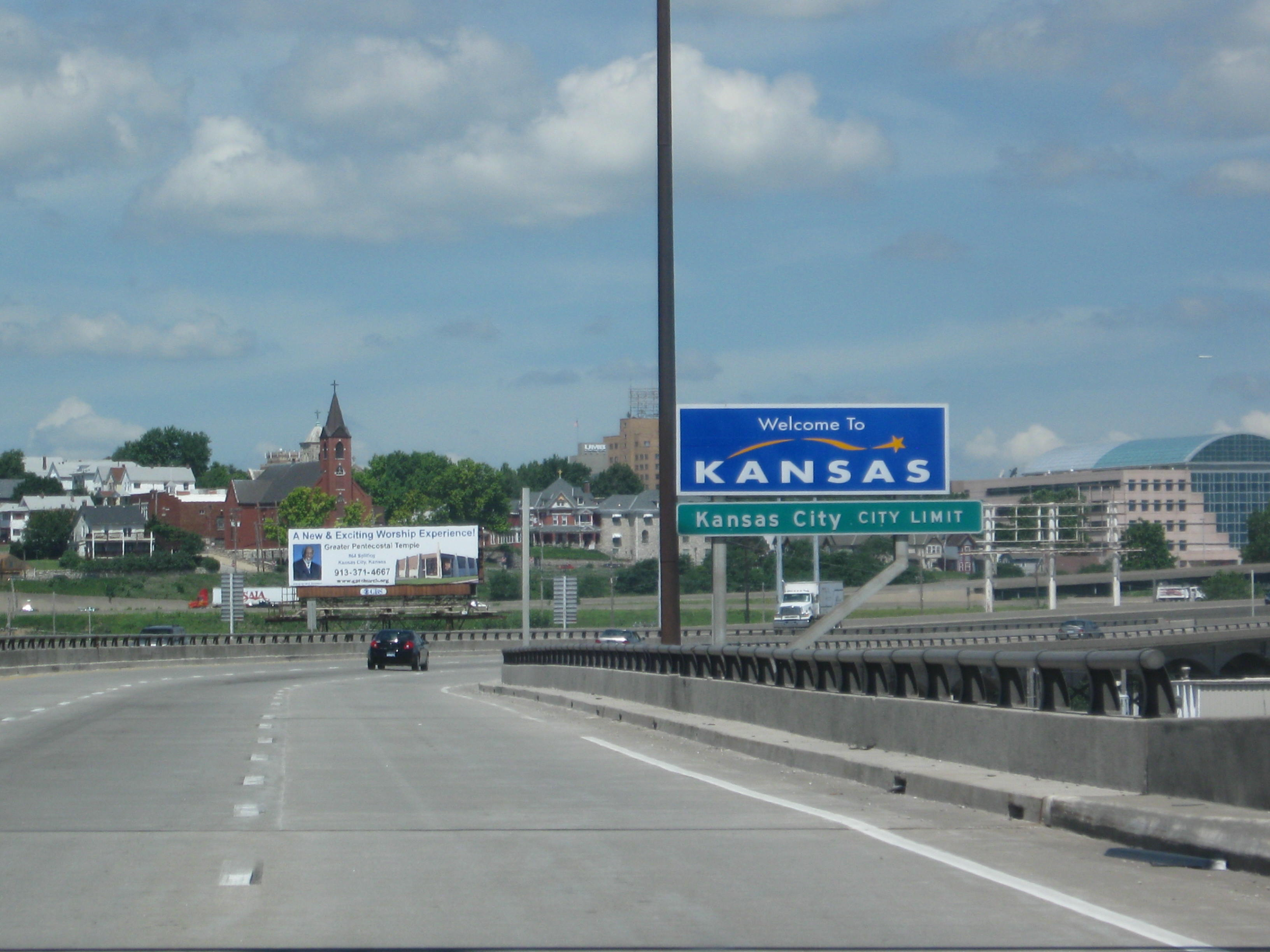 Welcome to Kansas sign on I-70 in KC